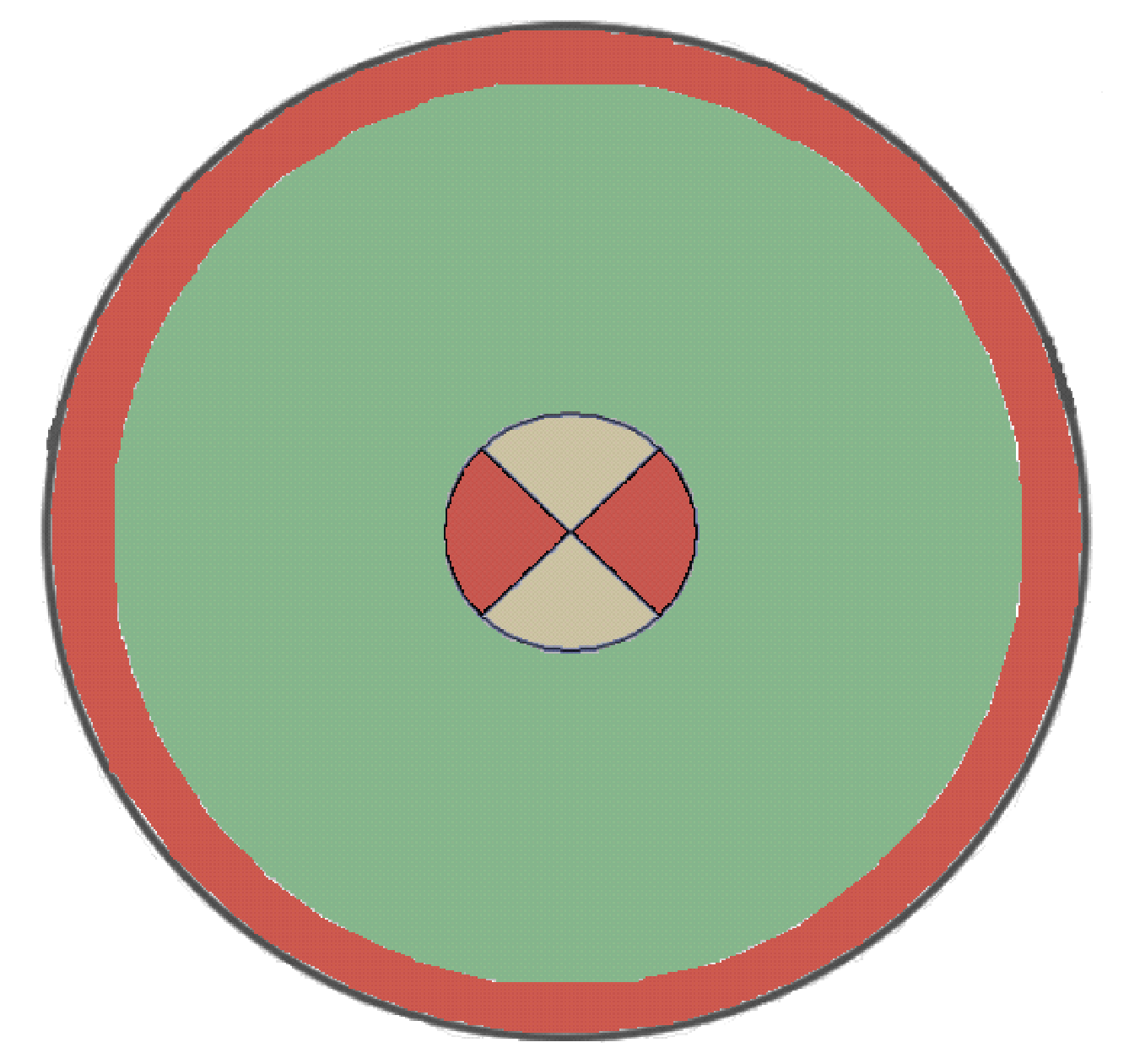 Shield pattern o.t. Invicti iuniores Britanniciani, listed as one of auxilia palatina units in the Magister Peditum's infantry roster; it assigned to the "Comes" Hispaniarum under the name Invicti iuniores Britones, Notitia Dignitatum, 5th century (Parisian Manuscript).